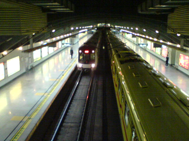 Photo taken by David Wong on 27 January,2007